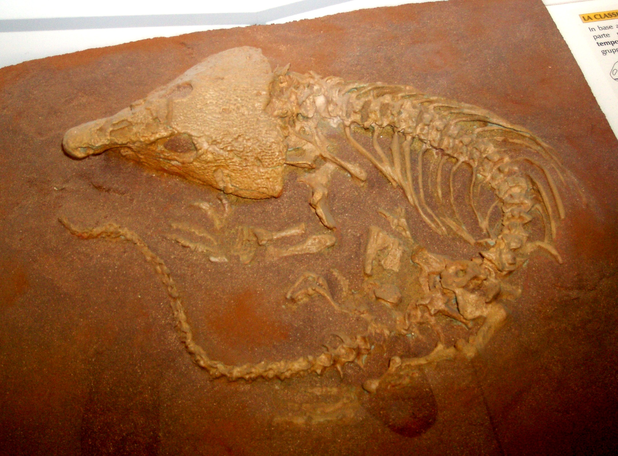 Fossil of Labidosaurus hamatus, an extinct reptile